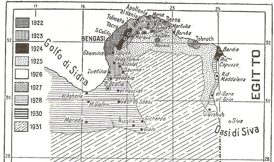 Italian pacification of northern Cyrenaica (1923-1931).